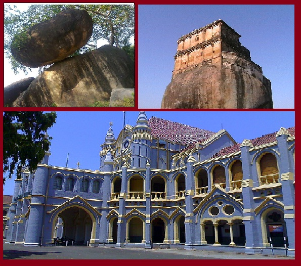 दृश्य